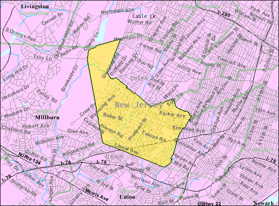 Census Bureau map of Maplewood